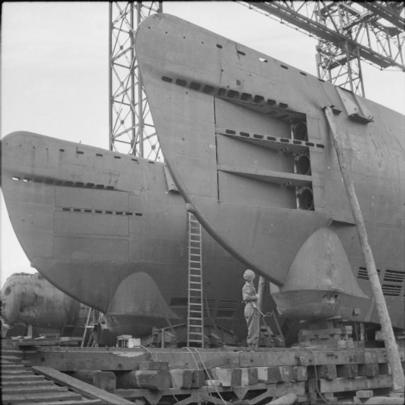 The British Army in North-west Europe 1944-45 A soldier of the 7th Cameronians is dwarfed by half-completed U-boats in the docks at Bremen, 28 April 1945.